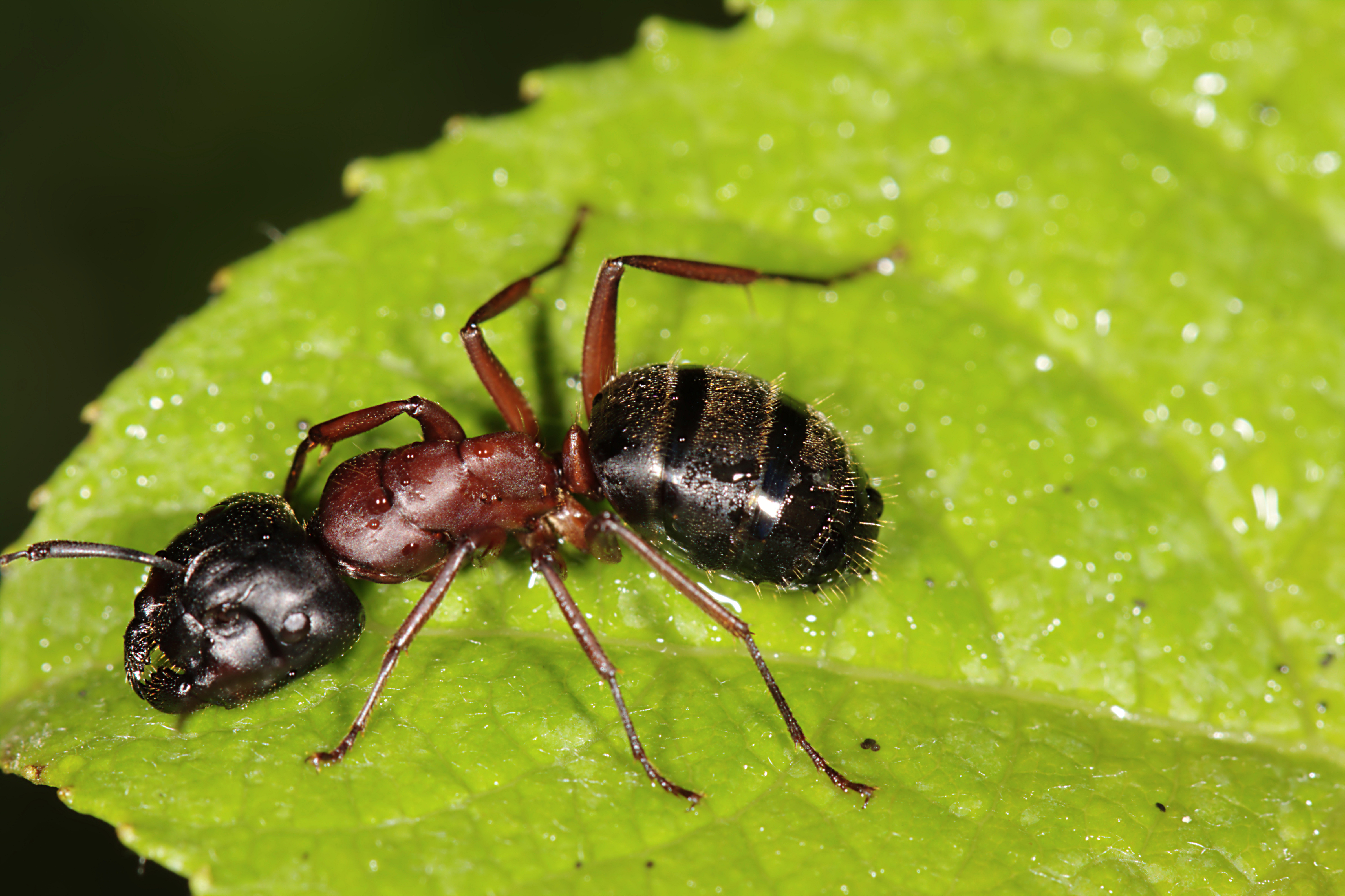 Vanlig stokkmaur (Camponotus herculeanus)